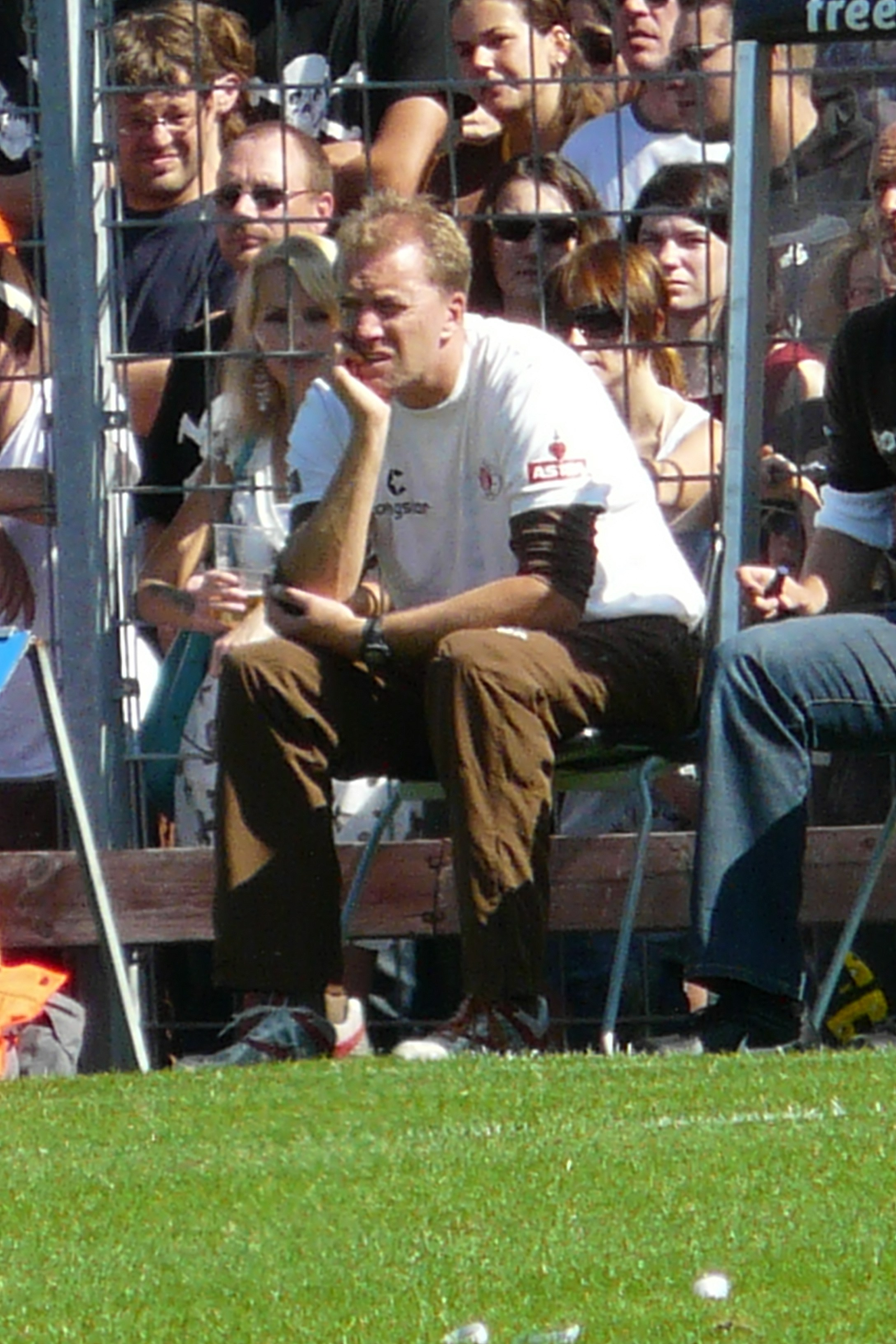 Andre Trulsen as Co-Coach of FC St. Pauli